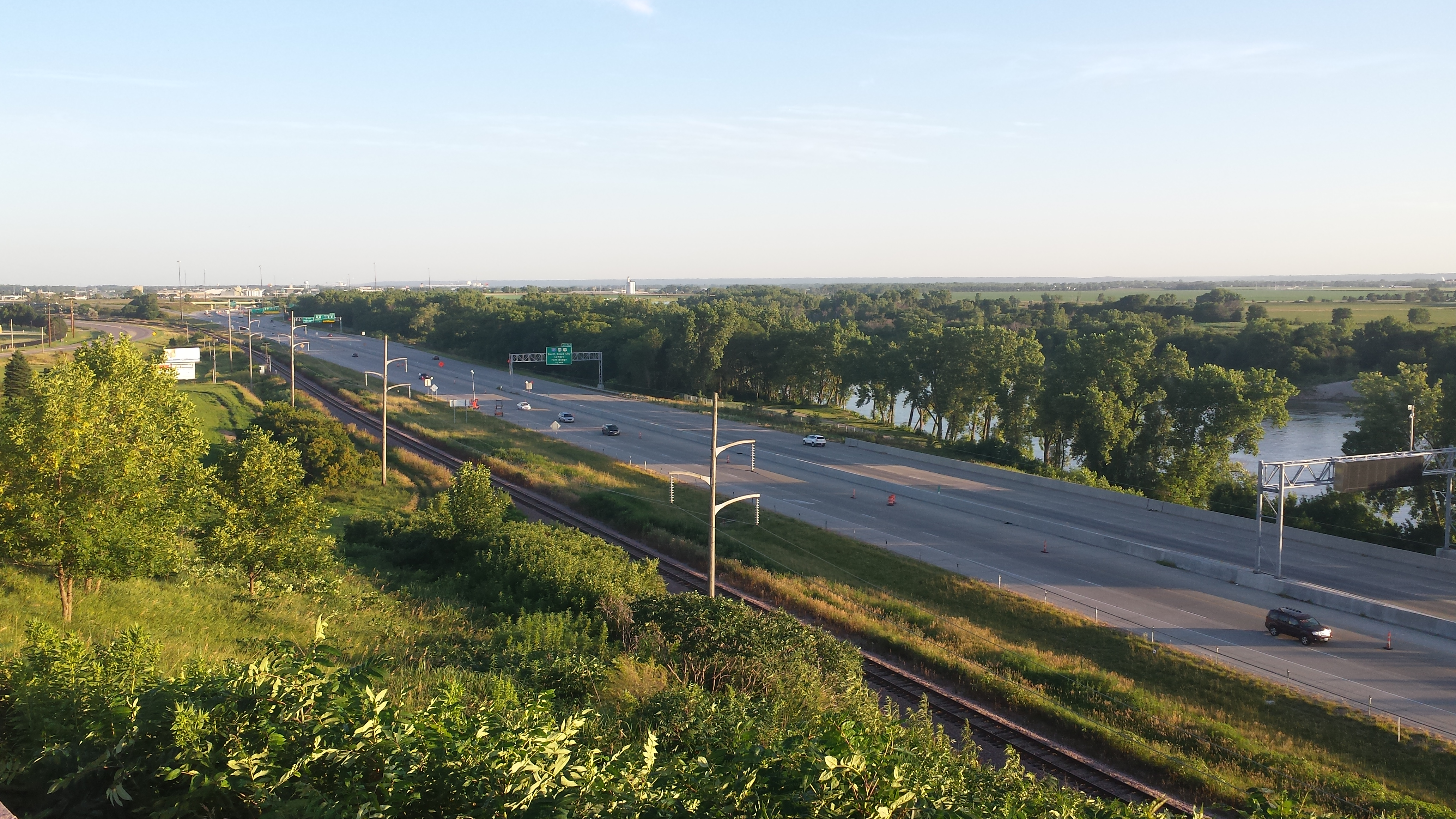 Interstate 29 from the Sgt. Floyd Monument. The Missouri River is to the right (west) of the highway.